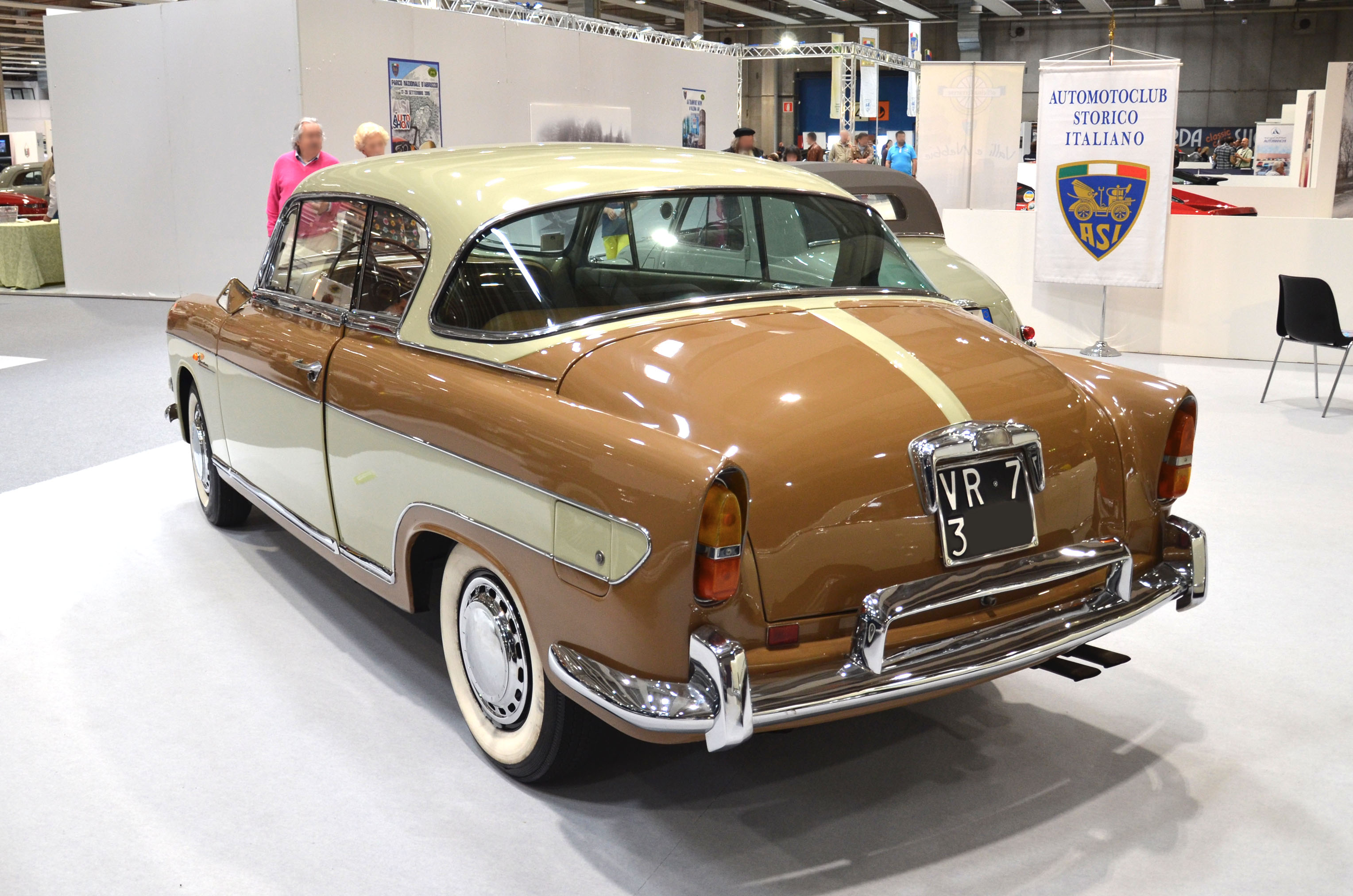 Fiat 1900 B Granluce, photographed at Verona Legend Cars 2015.